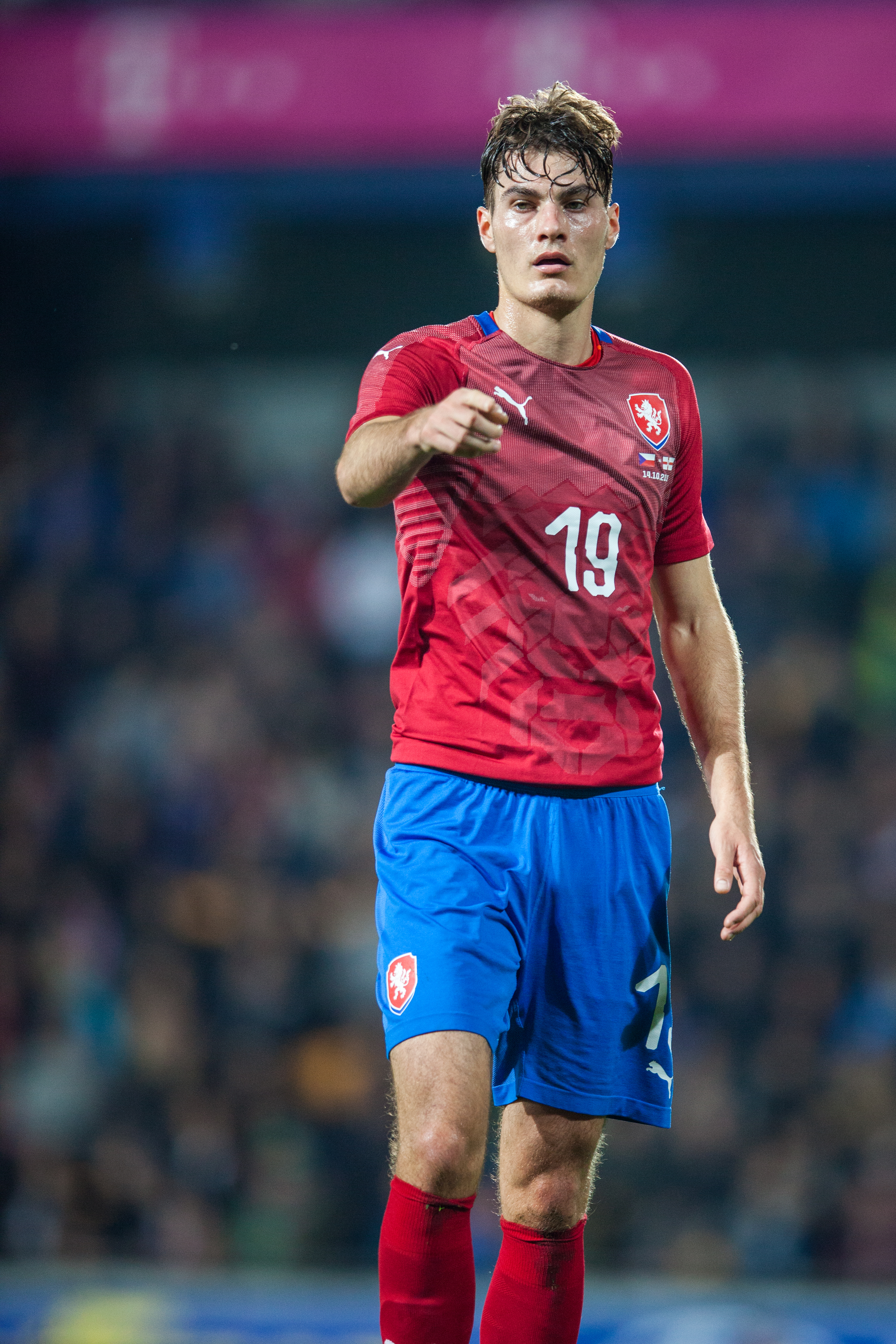 Patrik Schick in an international friendly match between Czech Republic and Northern Ireland (2:3), Stadion Letná (Prague) 2019-10-14 The making of this work was supported by Wikimedia Austria. For other files made with the support of Wikimedia Austria, please see the category Supported by Wikimedia Österreich. Personality rights warningAlthough this work is freely licensed or in the public domain, the person(s) shown may have rights that legally restrict certain re-uses unless those depicted consent to such uses. In these cases, a model release or other evidence of consent could protect you from infringement claims.